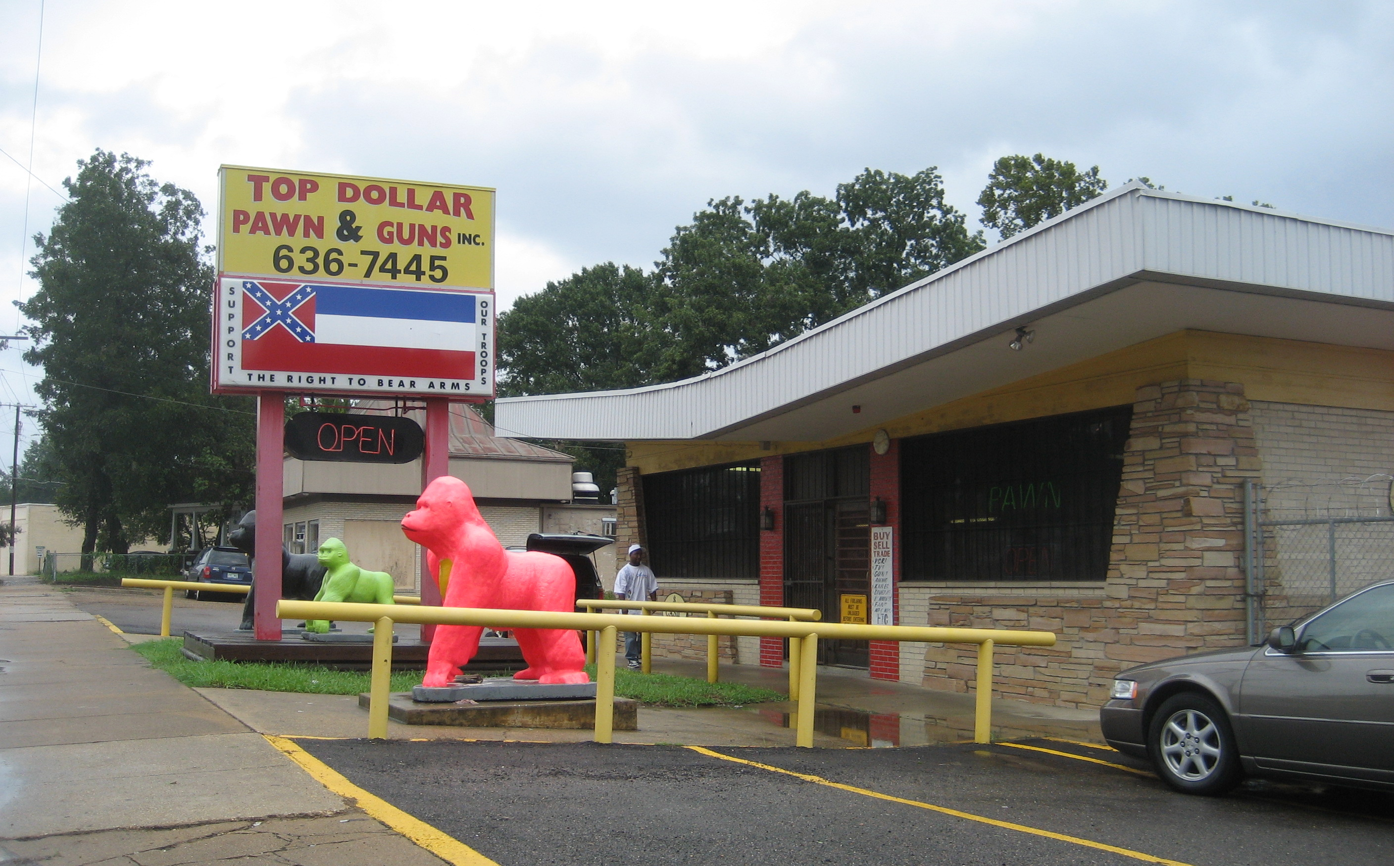 Vicksburg, Mississippi. Pawn & Gun Shop.